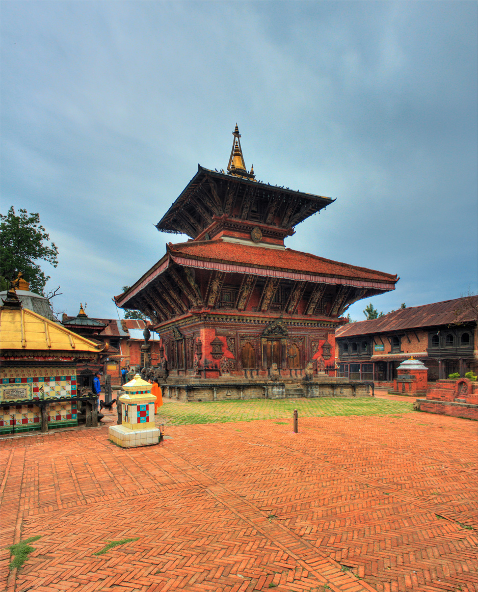 This is the oldest temple in Kathmandu Valley (Nepal) built in 4th century A.D during the regime of Licchavi daynasty which is situated at Changunarayan village, 22 km from Kathmandu. Changu Narayan was rebuilt around 1700 after the temple was destroyed by fire. It is listed as one of the world heritage sites by UNESCO. This is an HDR vertorama made from 6 photographs. View [LARGE SIZE] for details. Explored! :) | Facebook| Web | Trackback